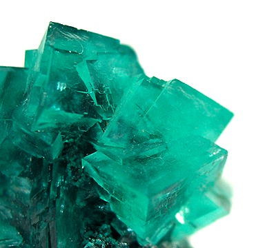 Smithsonite Locality: Tsumeb, Otjikoto (Oshikoto) Region, Namibia (Locality at ) Size: thumbnail, 2.4 x 2.1 x 1.3 cm Cuprian Smithsonite A gorgeous, glowing specimen with sharp GEMMY, TRANSLUCENT rhombs to 8 mm. this is the rarest pocket, I would say, of green smithsonite. There are very few extant and most are, like this one, rather small. Buy for the color, not the size...and you will see that the color gives it a display value beyond the mere size.